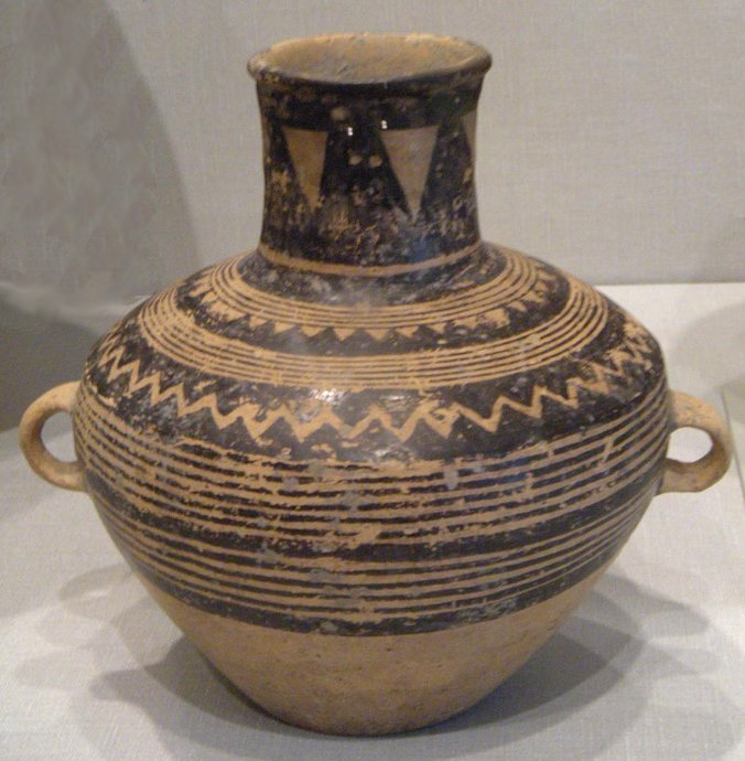 Jar China, Neolithic period (ca. 6500-1500 B.C.) Painted earthenware Gift of Mr. Donald Bickford, 1967 (3500.1) Wikipedia Loves Art at the Honolulu Academy of Arts This photo of item # 3500.1 at the Honolulu Academy of Arts was contributed under the team name "airforceJK" as part of the Wikipedia Loves Art project in February 2009. Honolulu Academy of Arts The original photograph on Flickr was taken by airforceJK—please add a comment to the original Flickr page whenever a use has been made on Wikipedia or another project. Project galleries on Flickr: this institution, this team